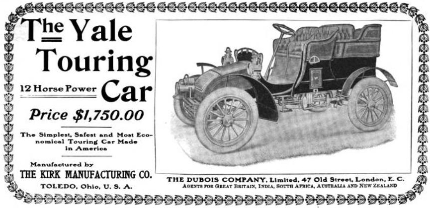 Kirk Manufacturing Co. - The Yale Touring Car - Toledo, Ohio - 1904